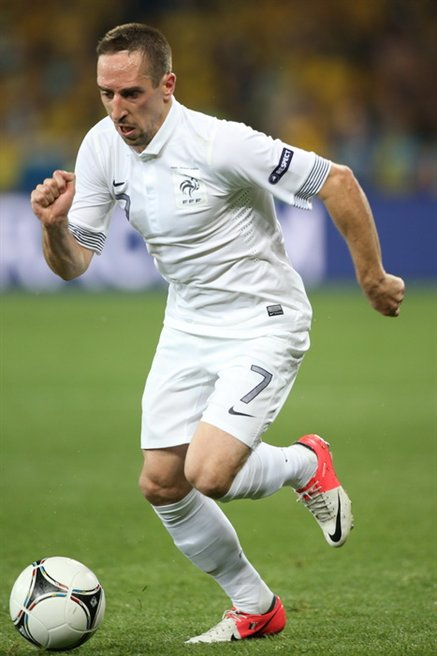 Franck Ribéry at the Euro 2012 match against Sweden